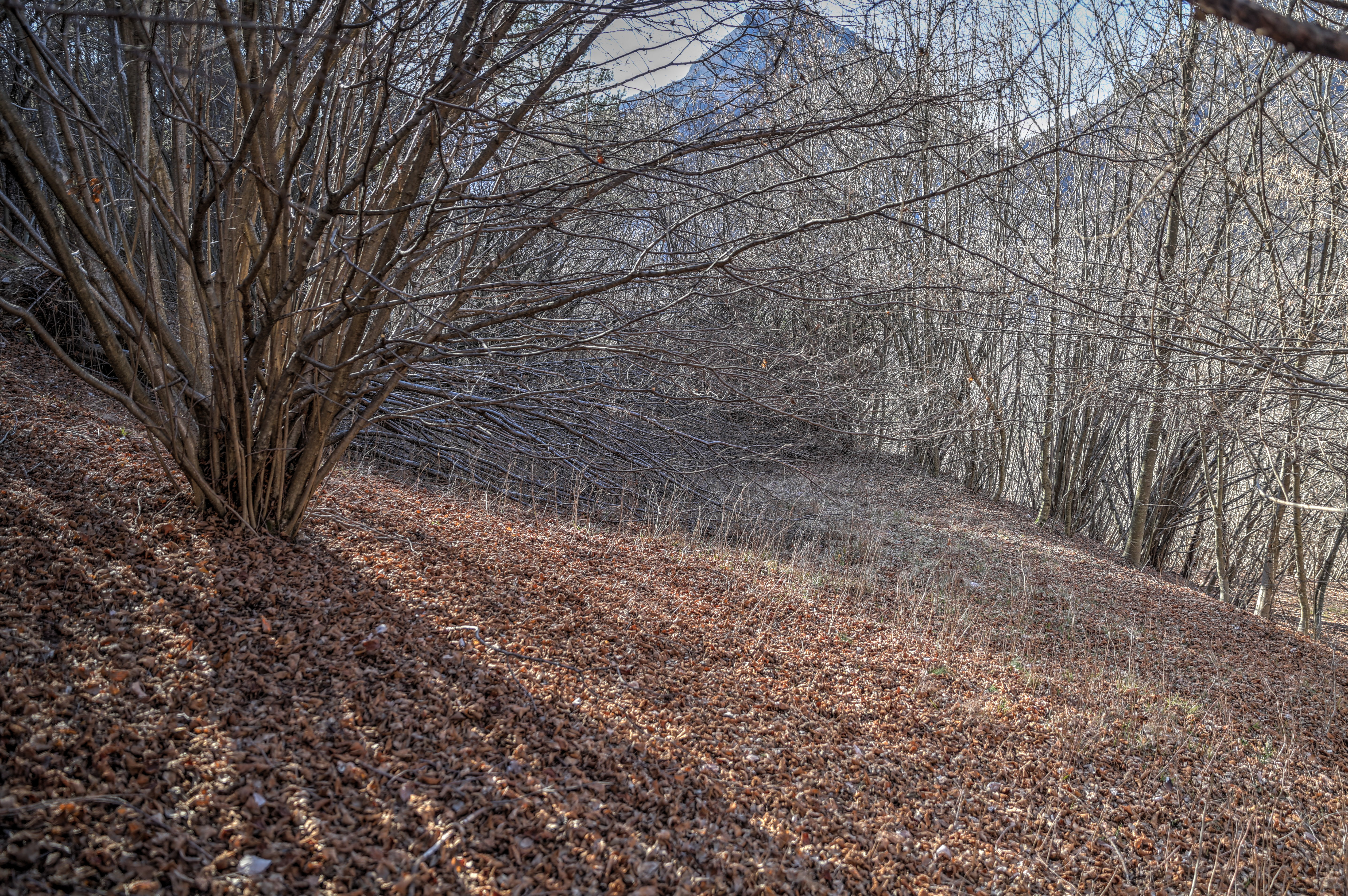 Hazelnut trees (Corylus avellana) near Drentus above Dordolla in the Val d'Aupa in the Carnic Alps, community Moggio Udinese / Friuli-Venezia Giulia / Italy / EU. The bushes are about 40 years old and could spread to a no longer farmed meadow.